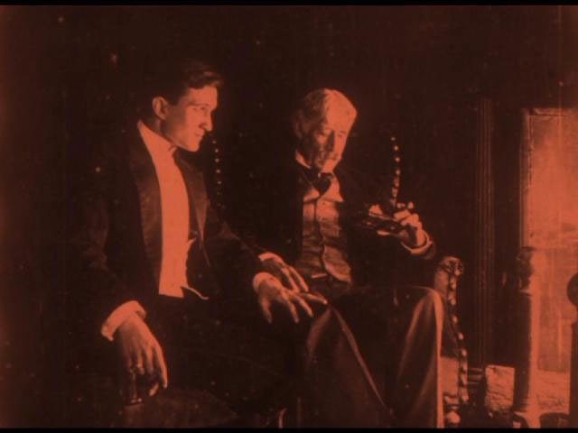 Still frame from the Vitagraph Studios film A Window on Washington Park (1913)